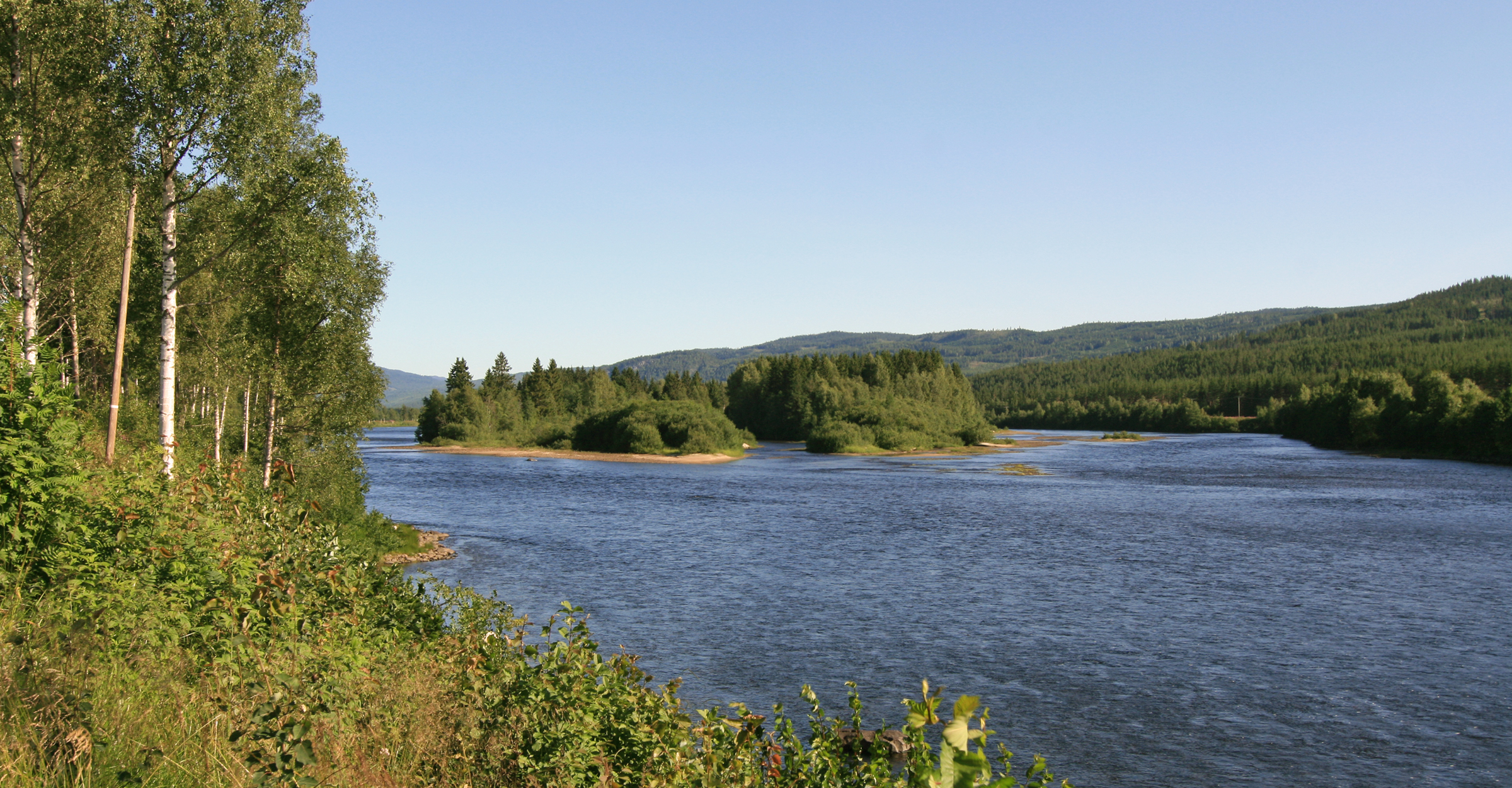 Aits in river Glomma, Hedmark, Norway.